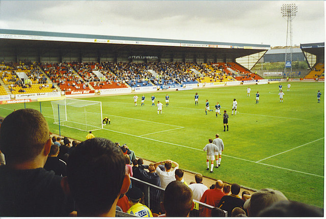 St. Johnstone hosting Aberdeen at McDiarmid Park, Perth, Scotland in August 2001.